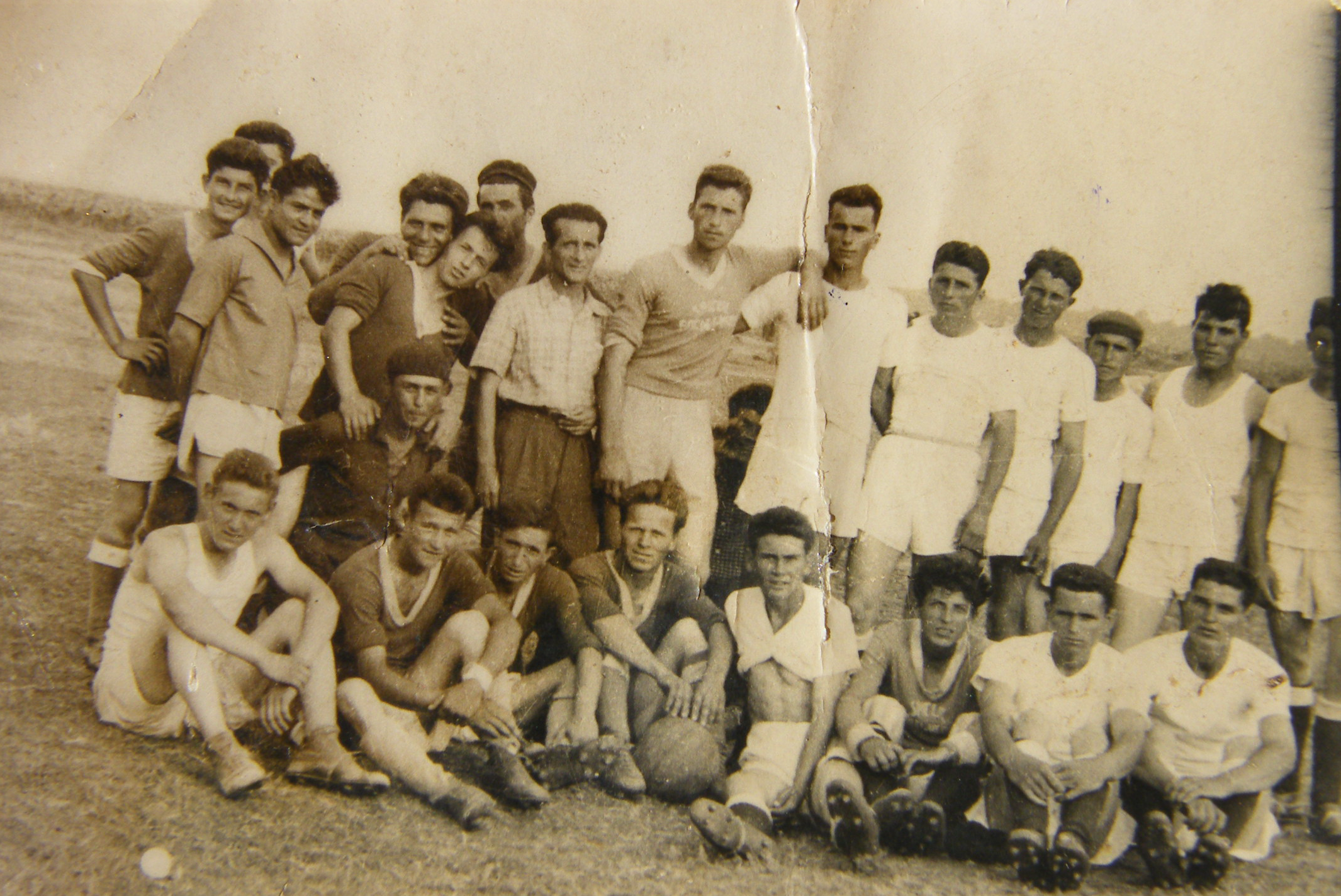 The football team Spicul Bordei Verde, from Bordei Verde commune, Brăila County, România, 1960.